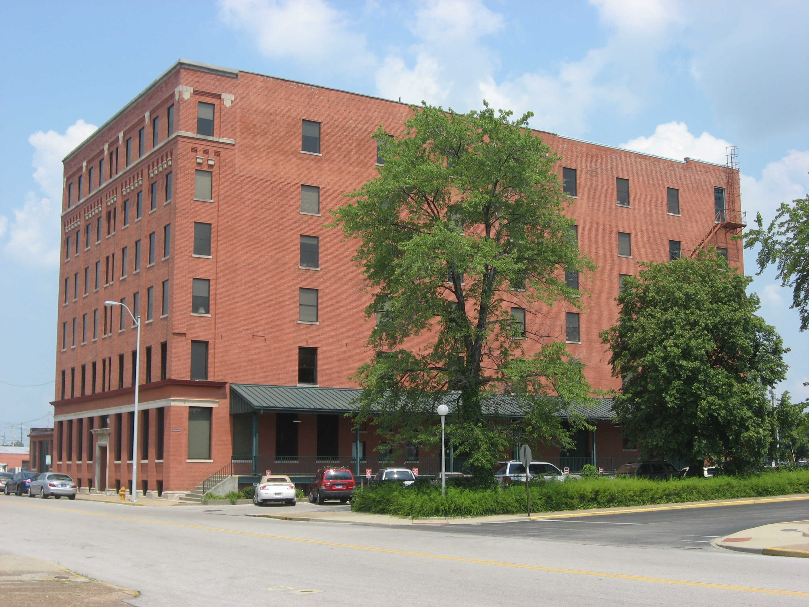 Front and southwestern side of the Parson and Scoville Building, located at 915 Main Street in Evansville, Indiana, United States. Built in 1908, it is listed on the National Register of Historic Places.